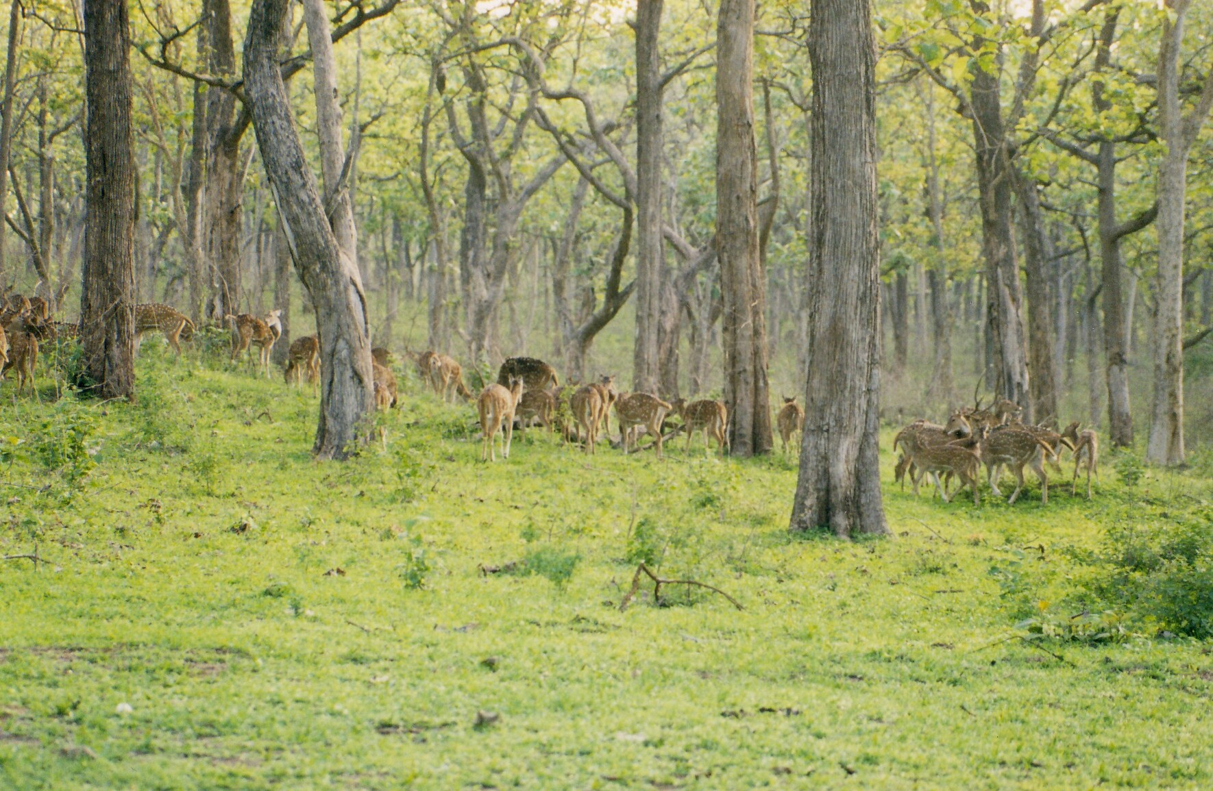 Photograph taken by self (Dineshkannambadi) at Bandipur National Park, Karnataka, July 2003